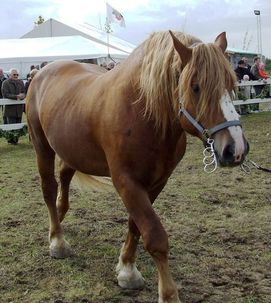 Lithuanian Heavy Draught. Lithuania.